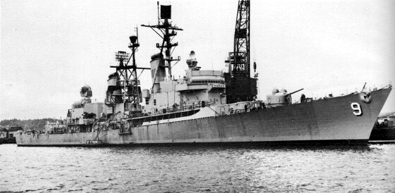 The U.S. Navy guided missile destroyer USS Coontz (DLG-9) fitting out at the Puget Sound Naval Shipyard, circa in 1959.